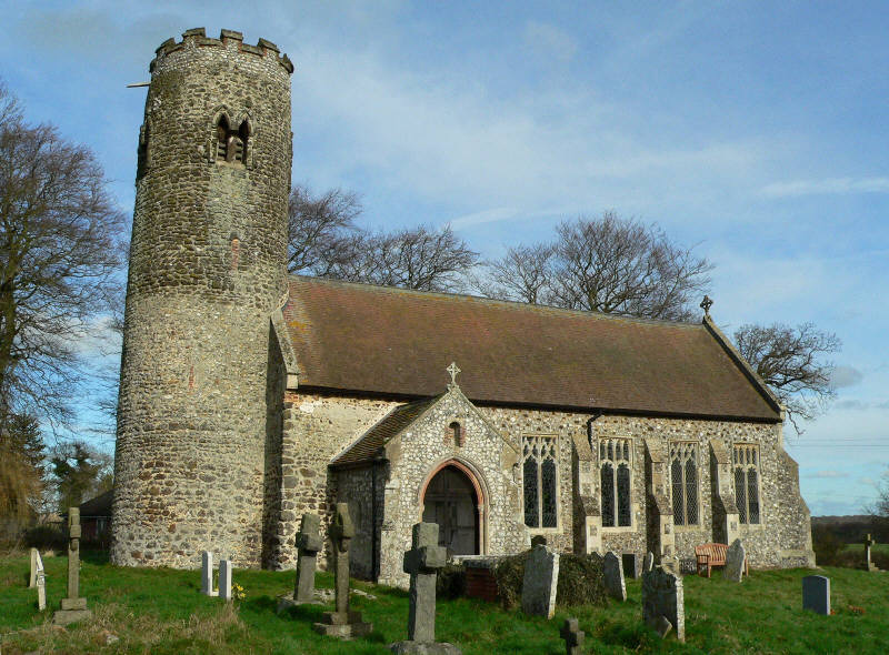 Bessingham St Mary